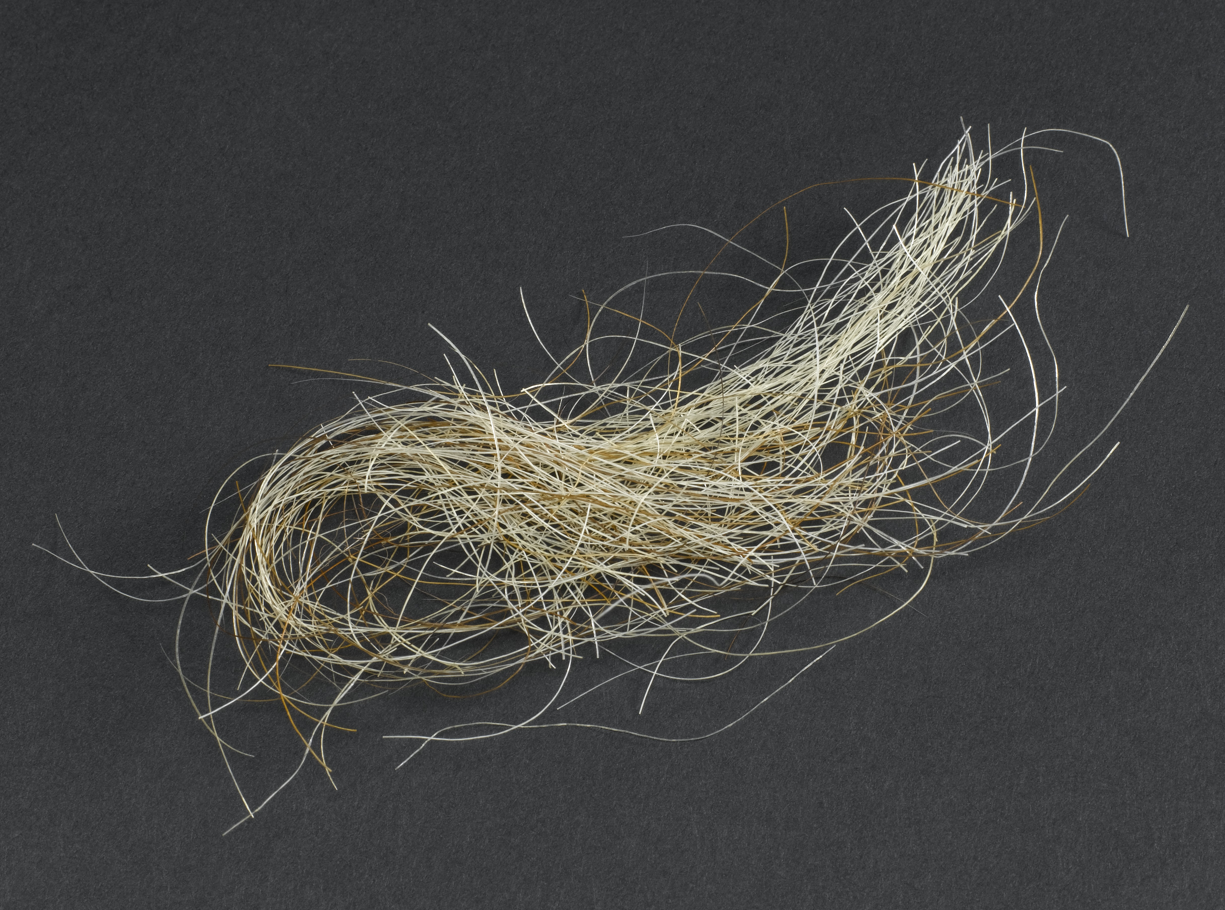 A lock of hair, reputedly from King George III King George III (1738-1820) ruled the United Kingdom of Great Britain and Ireland and was also king of Hanover – part of mainland Europe – from 1760 to 1820. He was prone to episodes described as ‘madness’ by contemporaries. Recent tests on the hair found an unexpectedly high concentration of arsenic. Heavy metals such as arsenic can make the symptoms of the hereditary condition called porphyria worse. Some researchers believe George had this condition. Porphyria can lead to severe mental imbalance and episodes of apparent ‘madness’. Other symptoms include abdominal pain, dislike of bright light, and purple urine. Henry Wellcome bought this lock of hair at auction in 1927, enclosed within a slip of paper documenting its origin. Medical Photographic Library